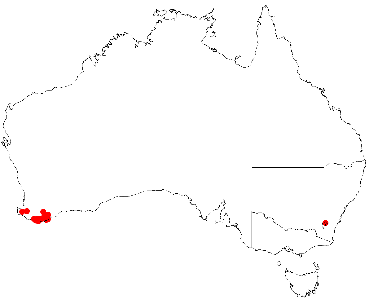 Billardiera drummondii occurrence data from Australasian Virtual Herbarium downloaded 5 July 2018